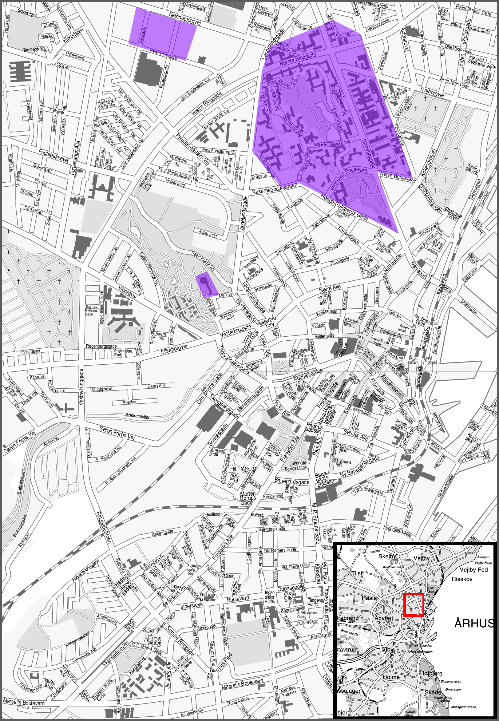 Map to locate the university in Århus, Denmark